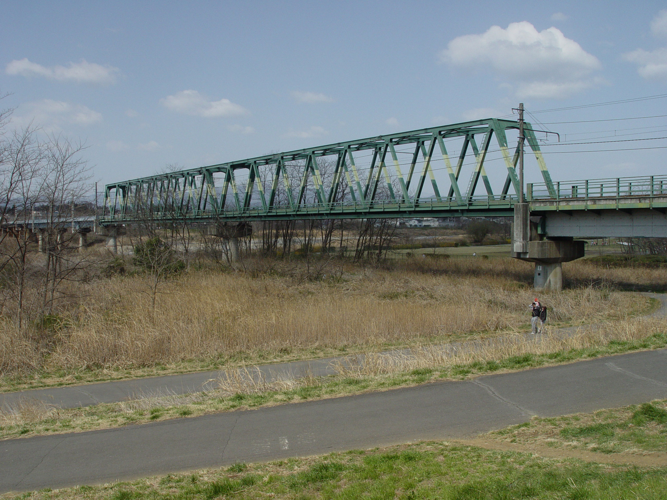 Bridge of JR Itsukaichi Line over Tama River ja: 多摩川を渡る五日市線